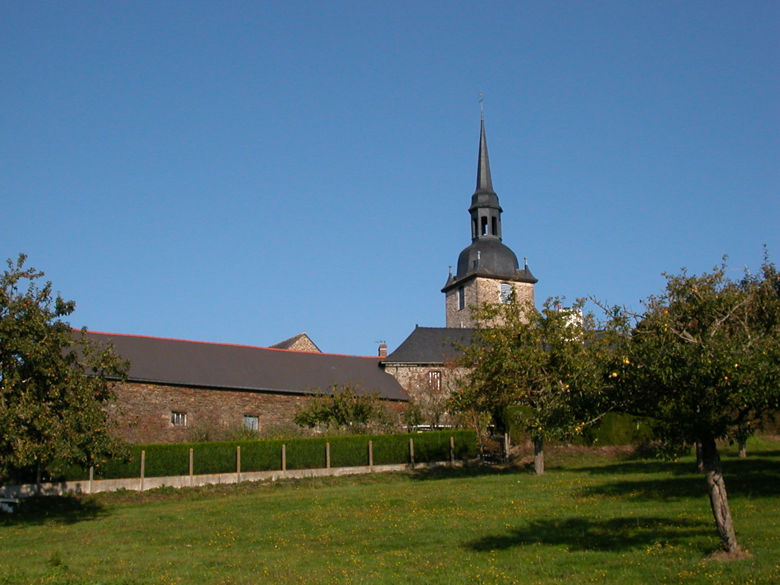 Church of Orgères (Ille-et-Vilaine)